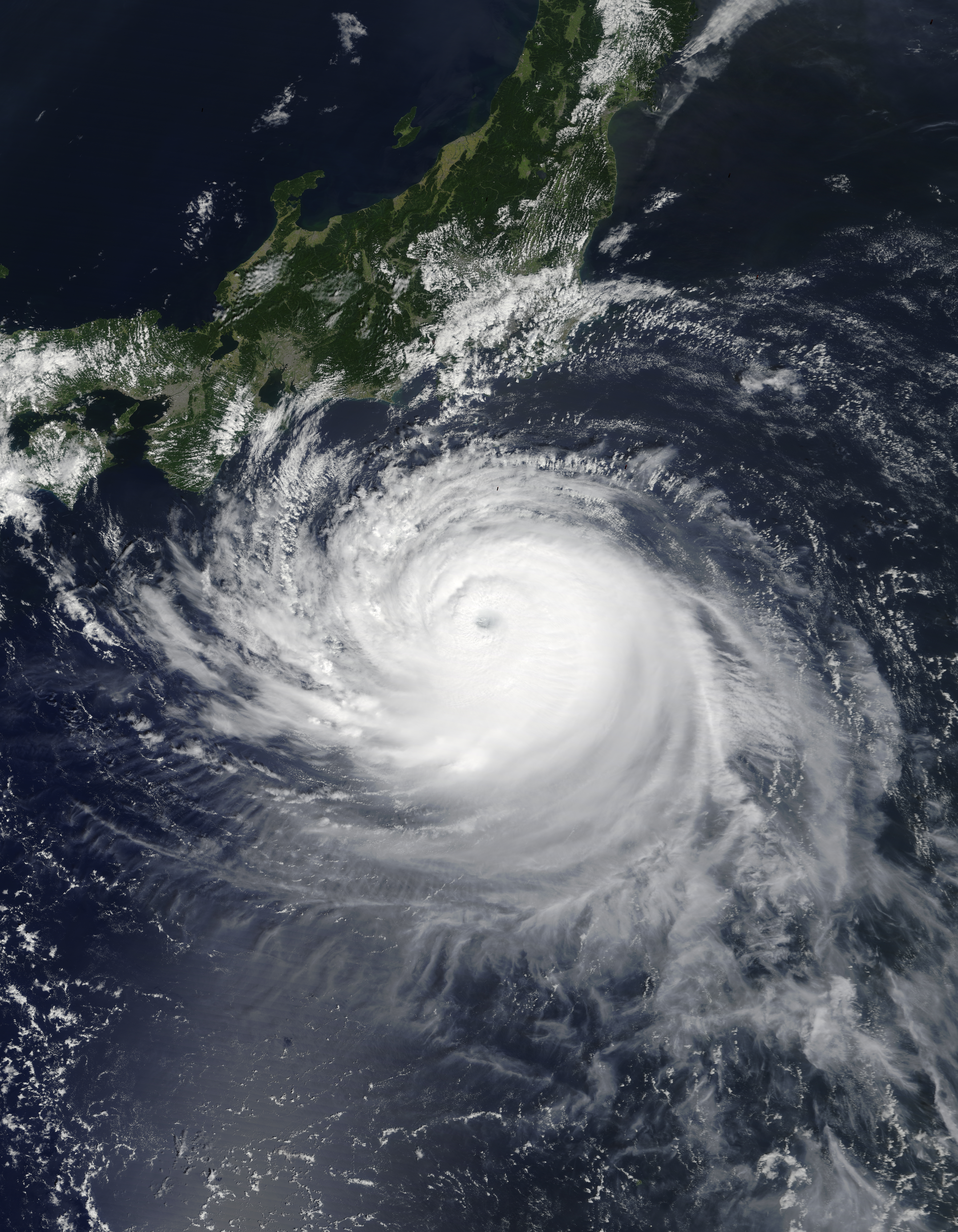 Typhoon Faxai approaching Japan on September 8, 2019